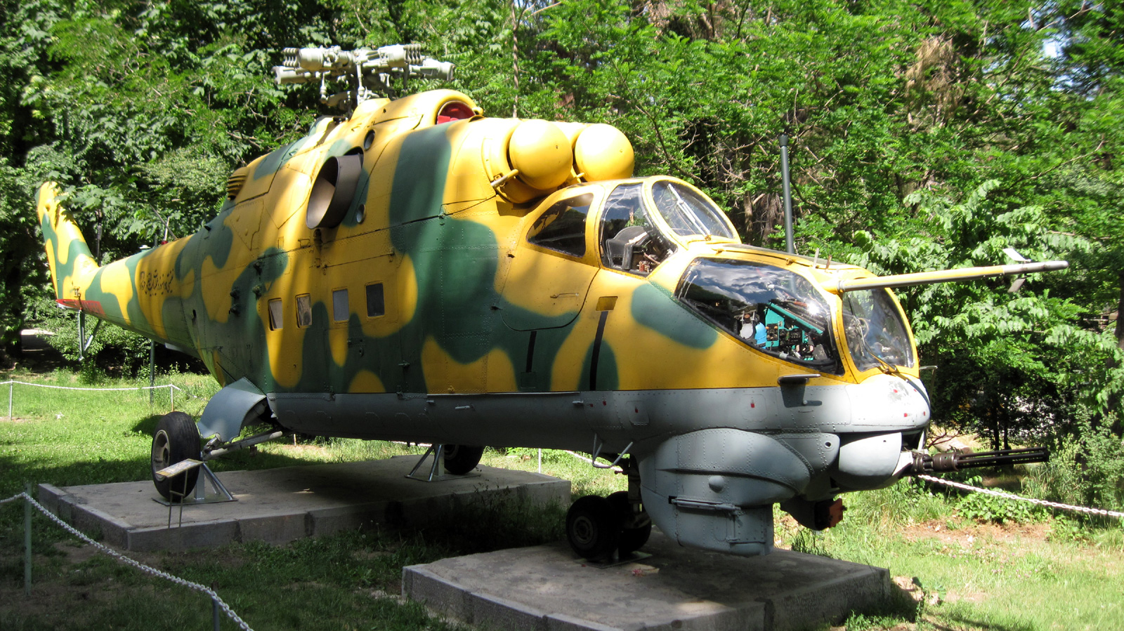 Iraqi helicopter captured by Iranian forces during Iran-Iraq war. Saad-Abad military museum